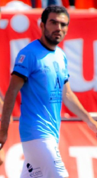 San Luis player Jehu Chiapas